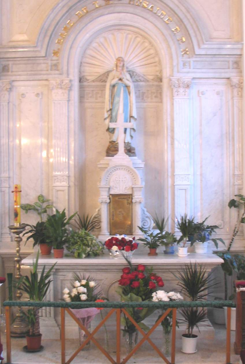 Catholic Church St Louis, Noscow. Our Lady of Lourdes